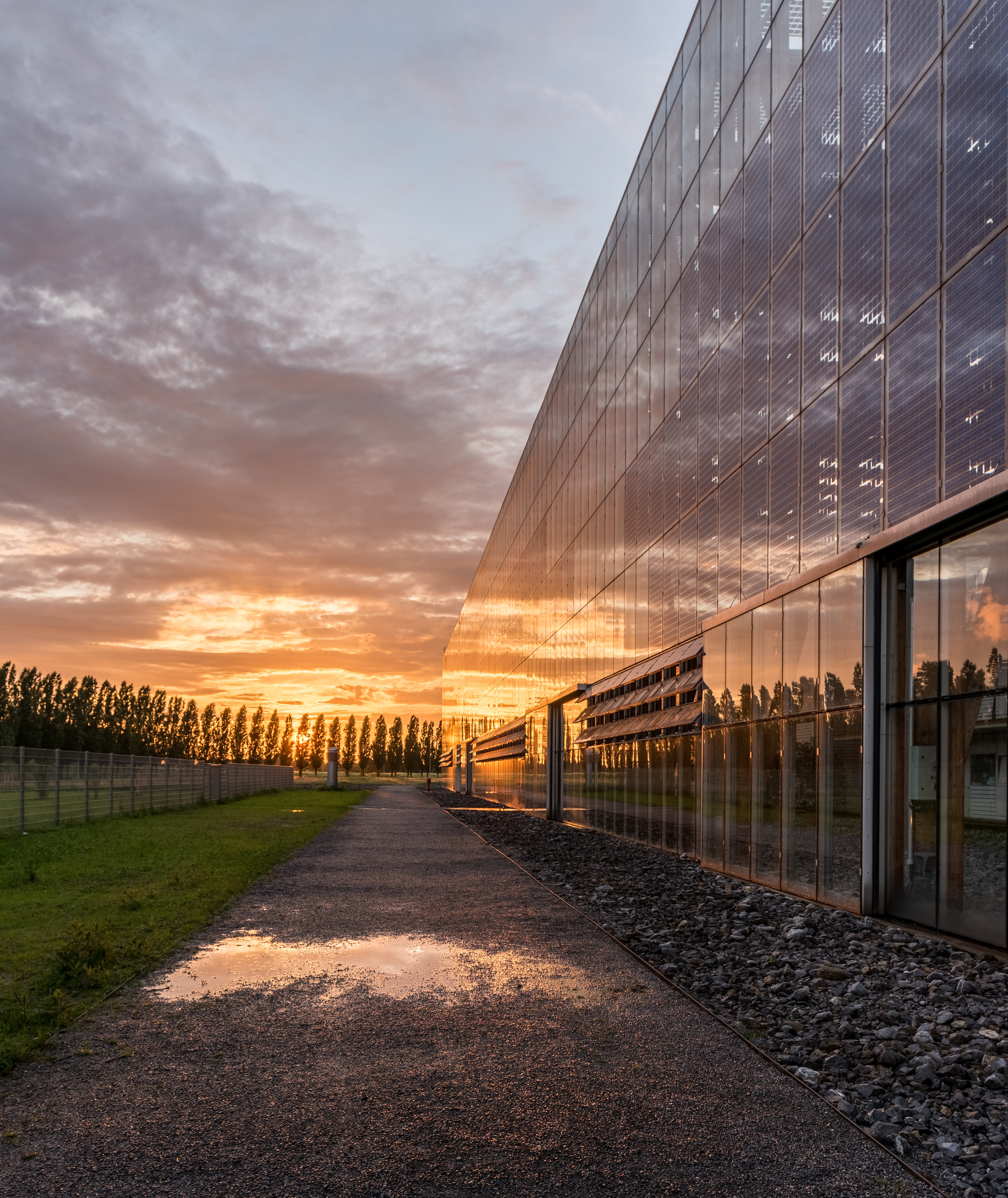 Sunset at the academy building Mont-Cenis in Herne